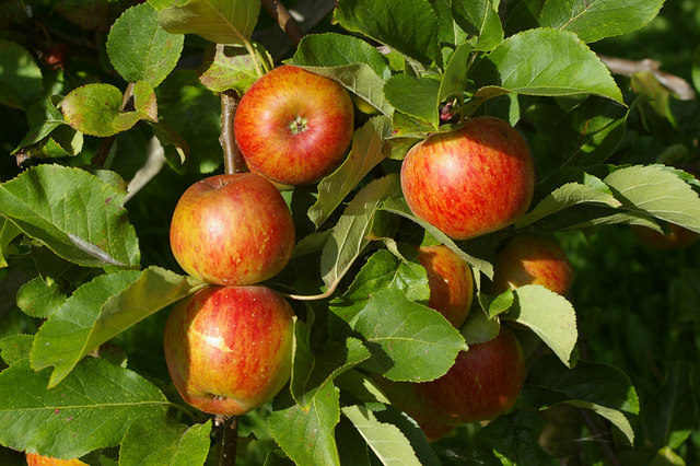 Apple - Ellison's Orange: This is an old variety of Apple which is no longer widely grown.